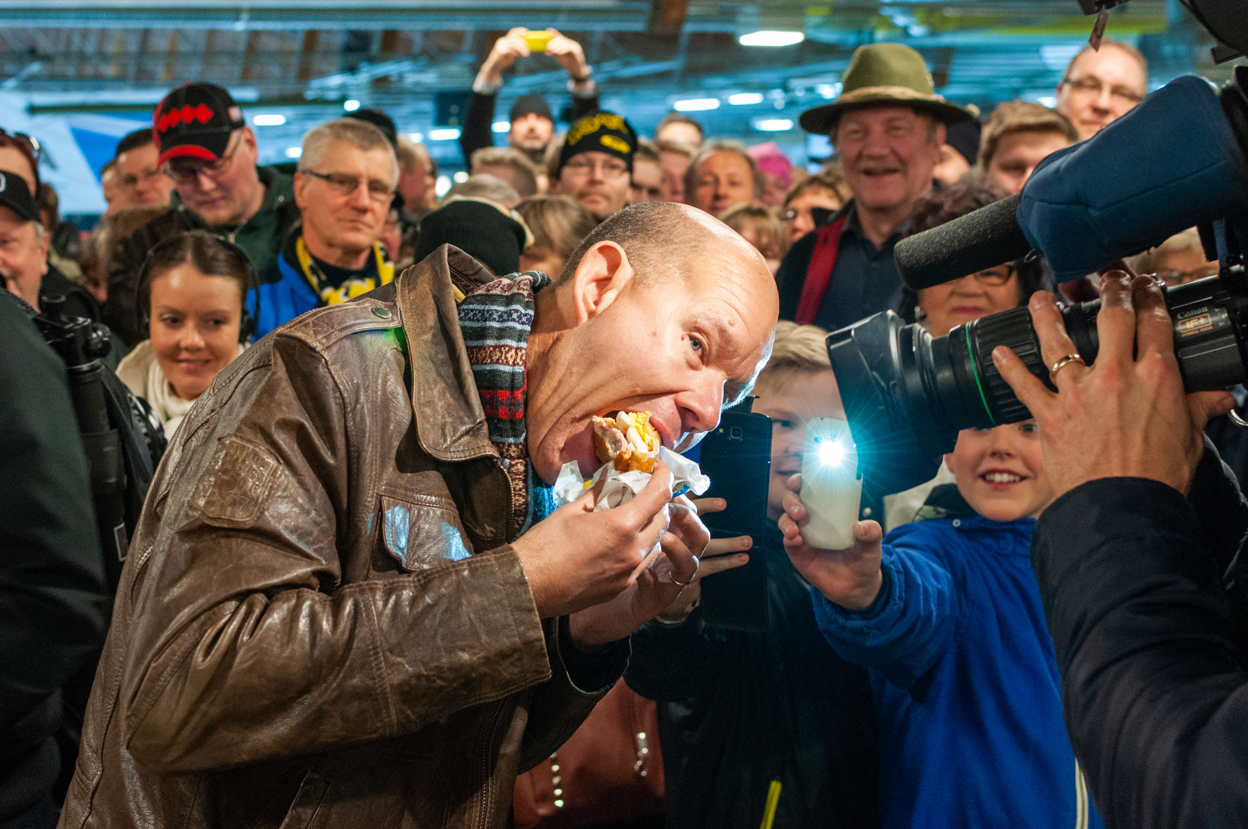 Finnish journalist and media personality Kaj Kunnas at a SaiPa-TPS hockey match in Lappeenranta, Finland. The match was the last of the regular season where SaiPa would go on and place 4th. Earlier in the season, Kunnas had bet that he would eat a hat full of Vety, a local delicacy, if SaiPa would place in the top 6. As the top four placement was clinched, Kunnas arrived to redeem the bet.